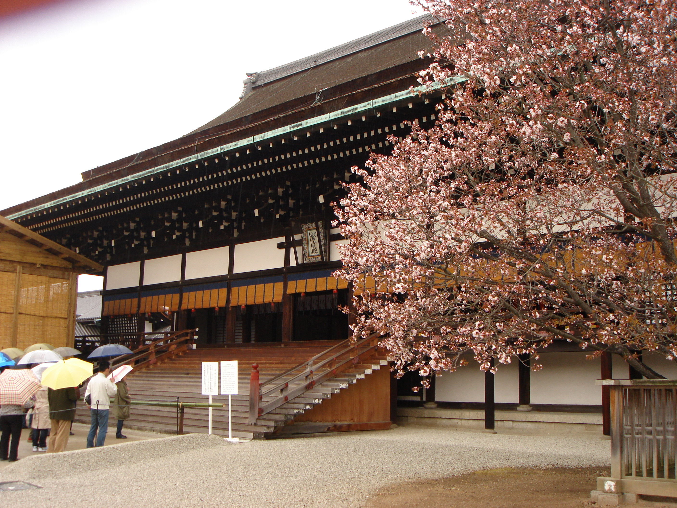 Sakon no Sakura and the Shishinden